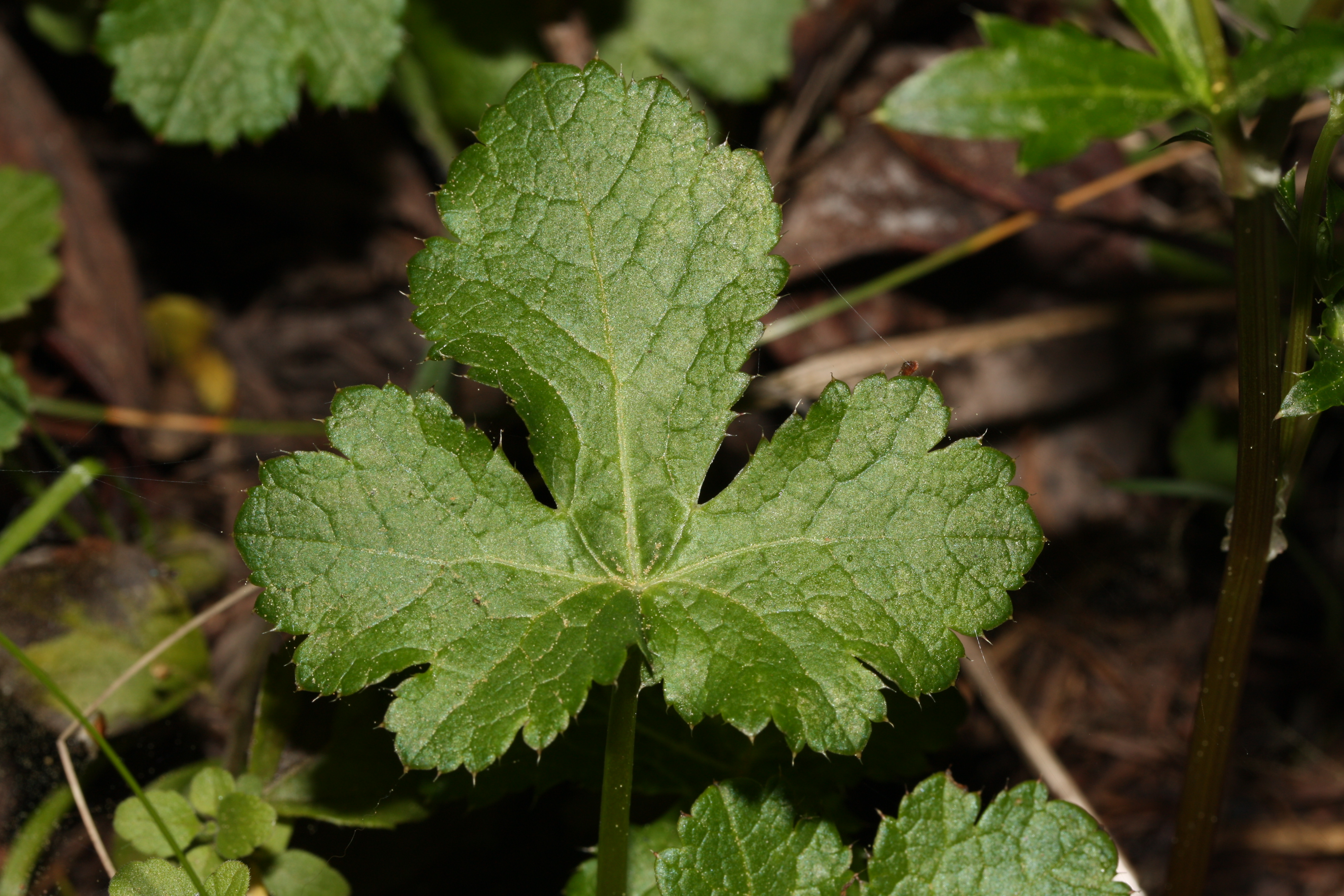 Pacific Sanicle, Pacific Blacksnakeroot; auth. Poepp. ex DC.